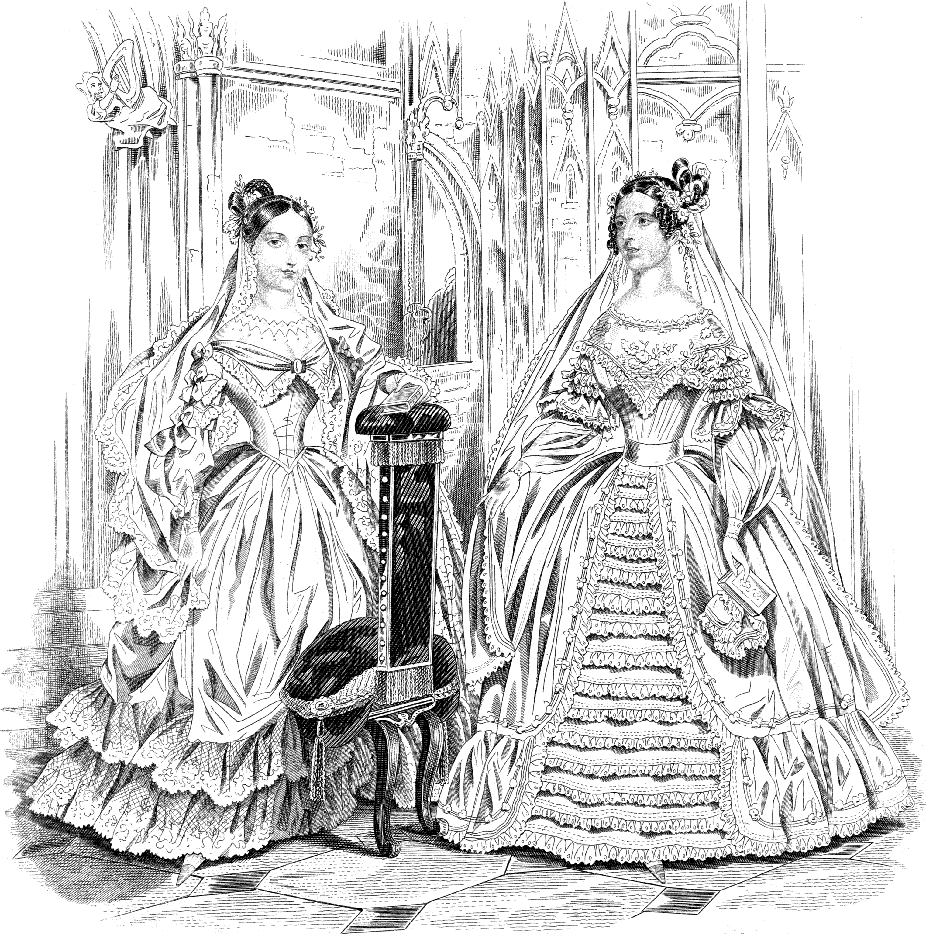 Portraits of her Majesty Queen Victoria and the Duchess of Sutherland